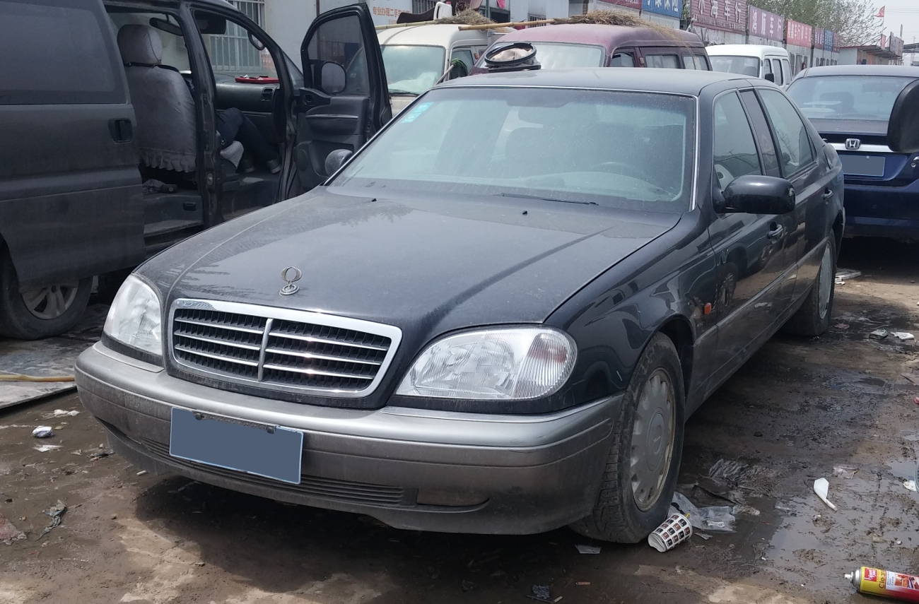 SsangYong Chairman CM Limousine photographed in Zhengzhou, Henan province, China.